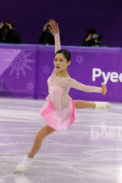 MIYAHARA Satoko JPN – 4th Place